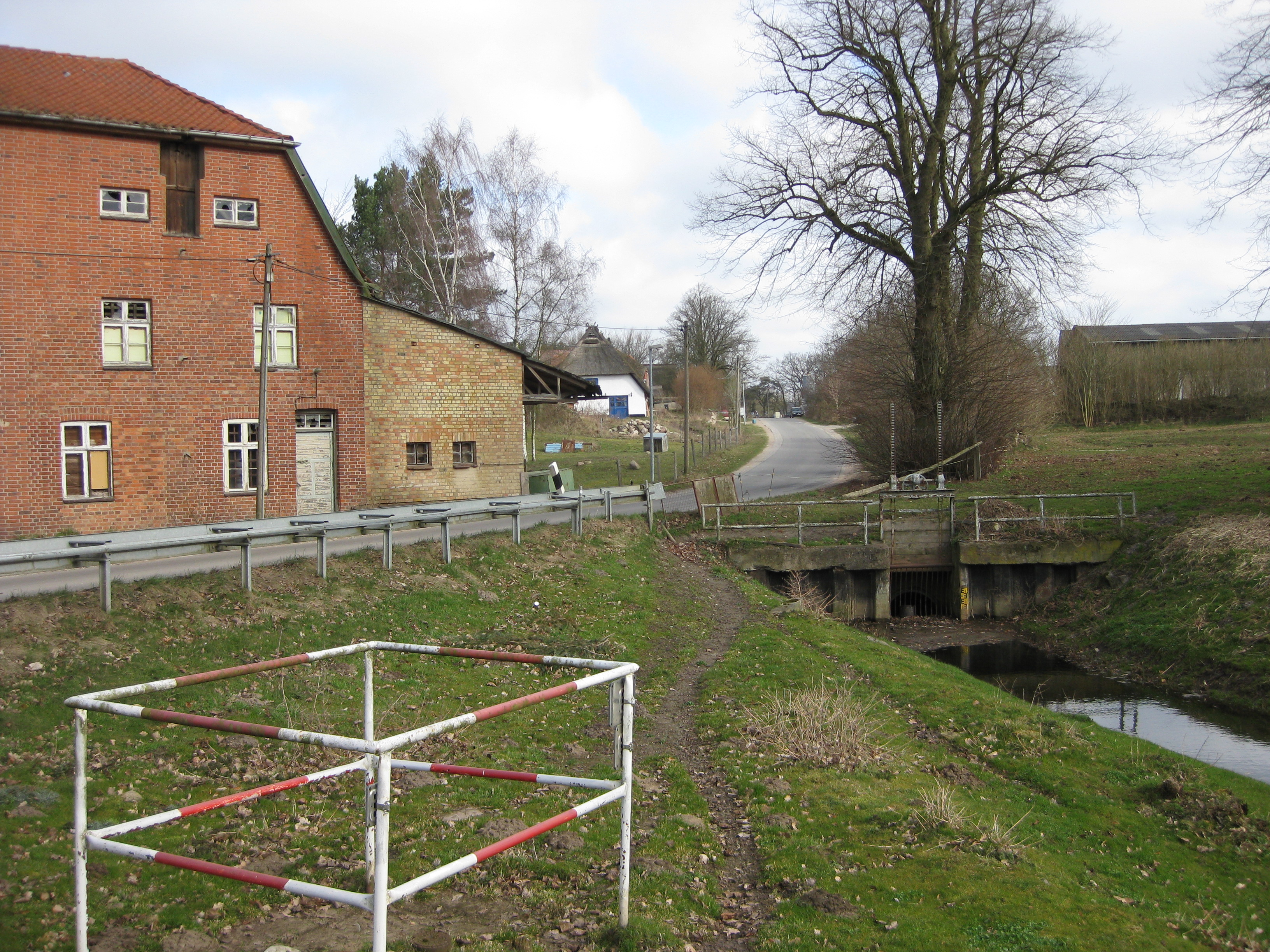 Watermill at Palingen, municipality of Lüdersdorf, Landkreis Nordwestmecklenburg